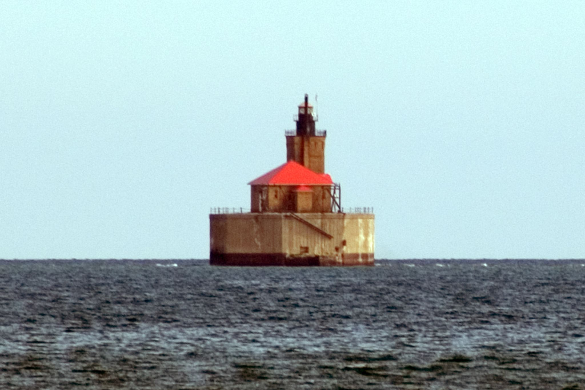 Port Austin Lighthouse at Lake Huron, Michigan, USA